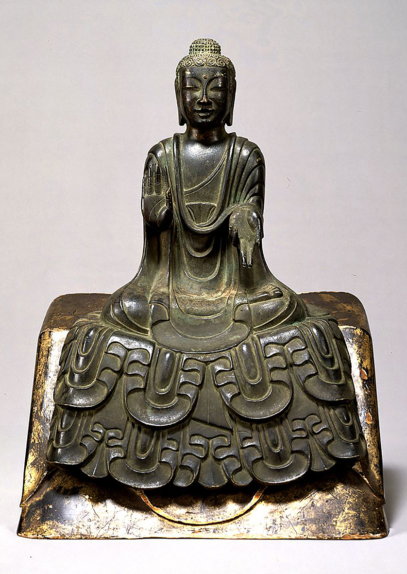 Seated Buddha. Asuka period, 7th century. Important Cultural Property N145, Horyuji Treasure. Tokyo National Museum.